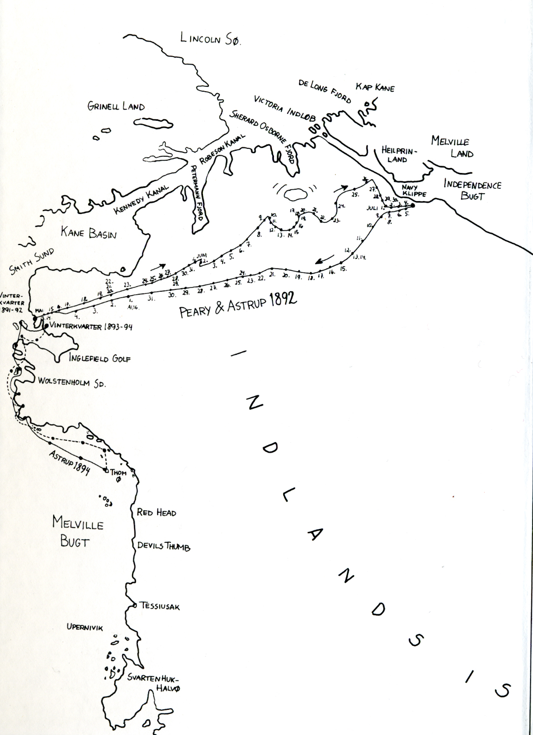 Eivind Astrup's map over his travels over Northwest Greenland with Robert Pearys in 1891/92 and with Kolotengva to Melville Bay in April 1894.